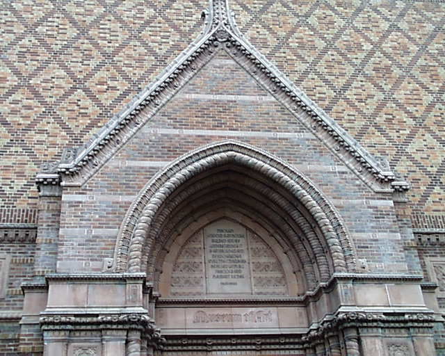 Closeup of main entrance at west facade of Jordan Schnitzer Museum of Art at the University of Oregon